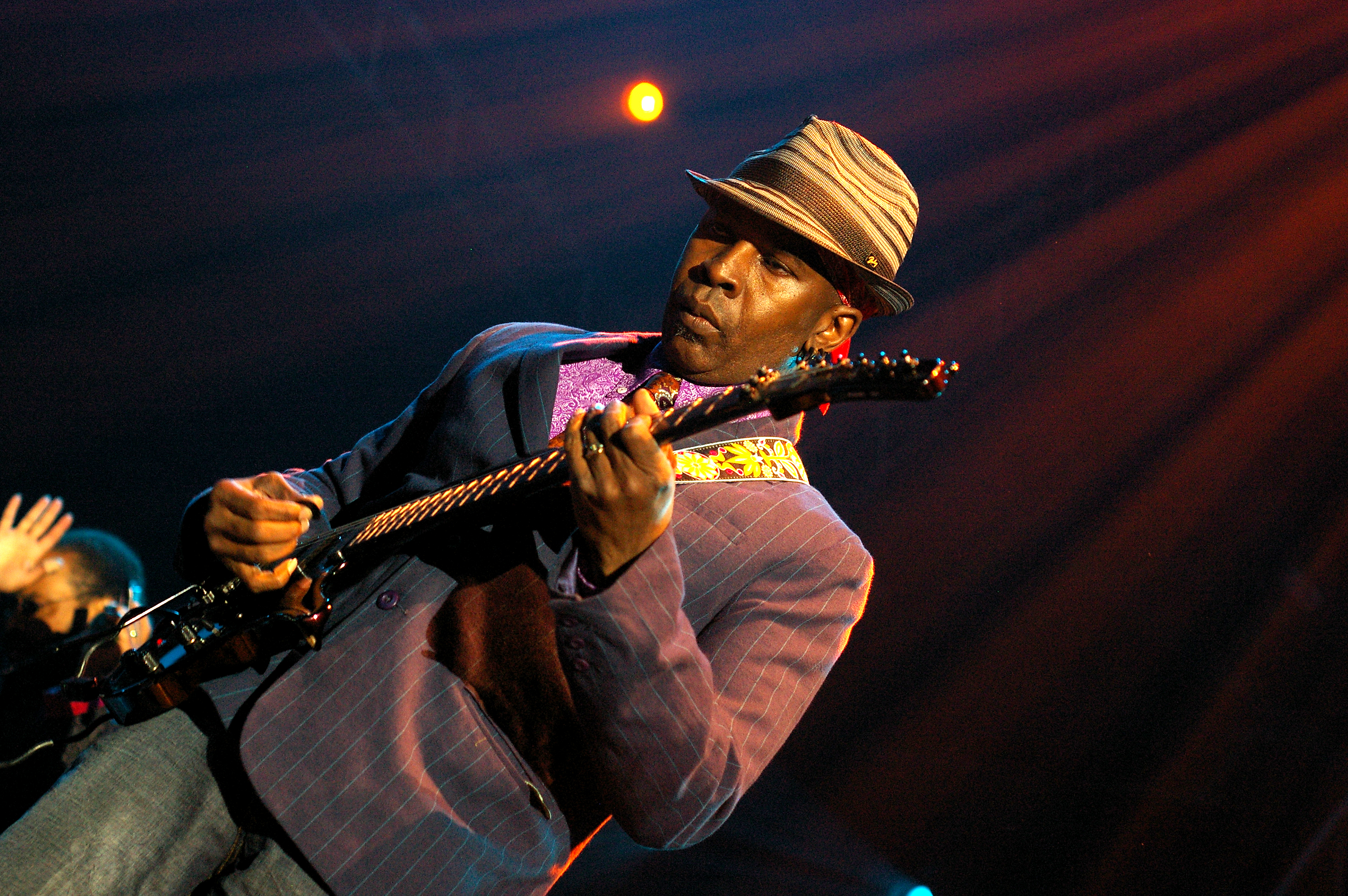 Taking of this photo was in cooperation with Rawa Blues (homepage) James Blood Ulmer's Memphis Blood feat Vernon Reid podczas 30 Festiwalu Rawa Blues 2010 09.10.2010 Katowice Spodek